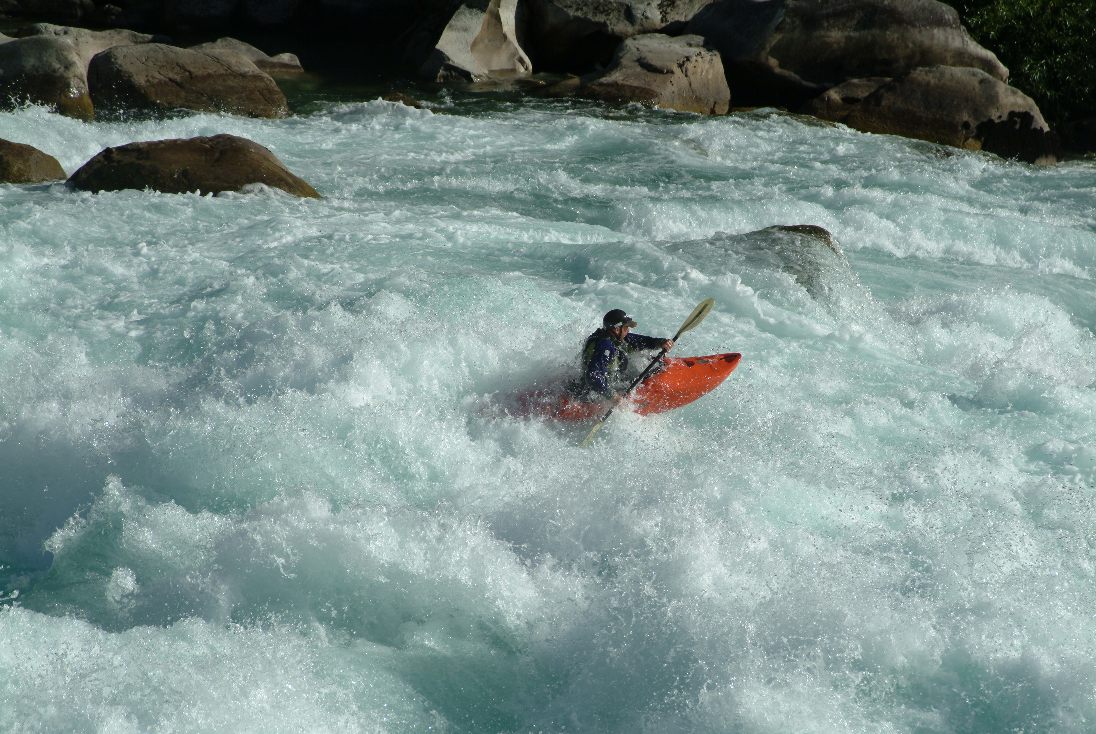 Kayaker Jon Clark in Terminator Rapid on the Futaleufu River, Chile. Photo: Warren Williams